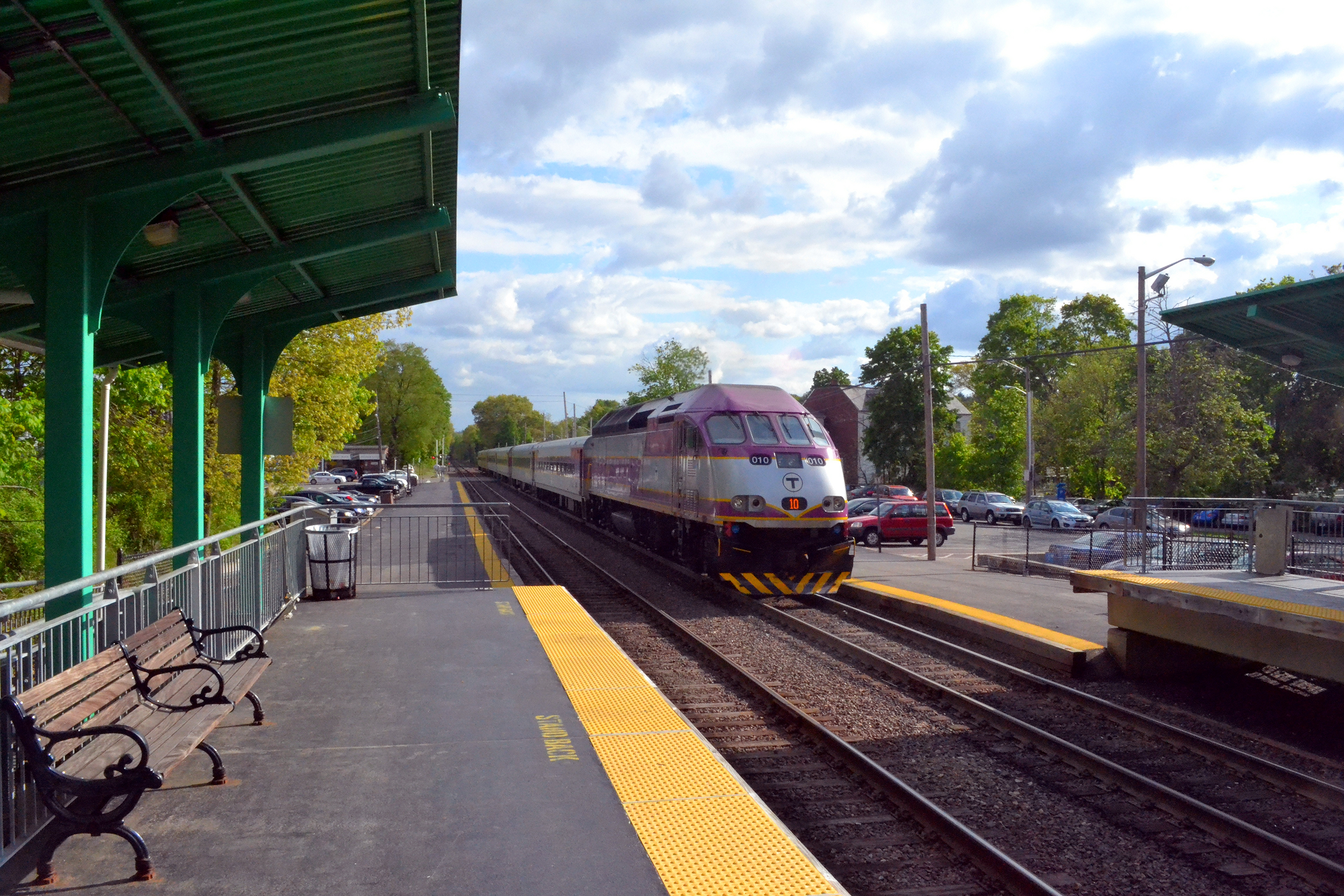 Shiny new MP36PH-3C locomotive #010 at Melrose Highlands in May 2012